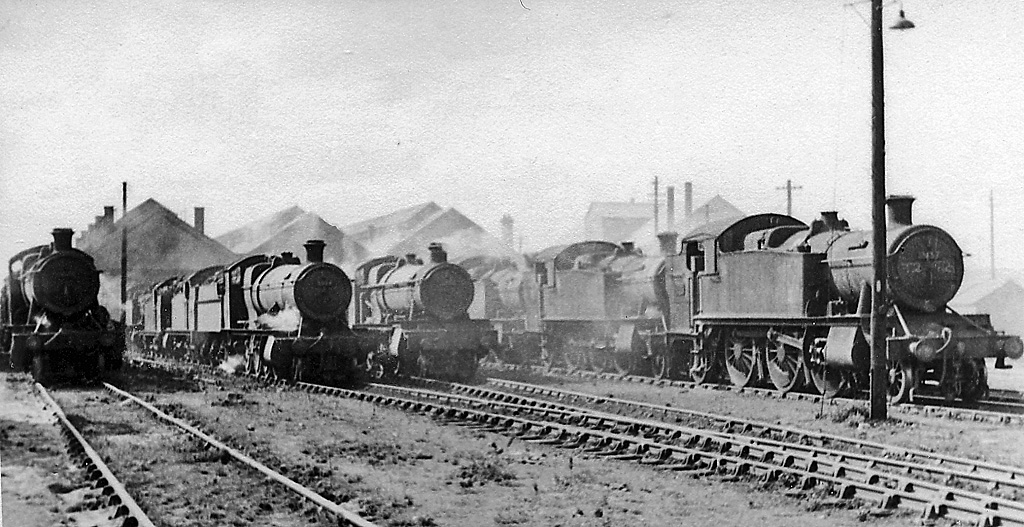 Severn Tunnel Junction Locomotive Depot View westwards, towards the Shed building, beyond which was the Station and the great Marshalling Yard. At that time (1951) about 100 freight (predominately coal) trains passed through Severn Tunnel Junction - each way each day (except Sundays). Many had arrived or been assembled at the Yard and over half had to pass through the Tunnel, with its gruelling gradients each way and needed banking assistance. This Depot (coded 86E by BR in the Newport District) therefore provided all the bankers (2-6-2Ts) as well as a number of engines for trains starting from Severn Tunnel Junction Yard, while servicing arriving locomotives. The allocation in 1950 was 77, comprising:- 2 4-6-0s, 14 (+ 3 WD) 2-8-0s, 2 2-6-0s, 2 0-6-0s, 12 2-8-2Ts, 10 2-8-0Ts, 17 2-6-2Ts, 9 0-6-2Ts and 6 0-6-0Ts. In the photograph is a typical line-up - on a Sunday, with 31XX 2-6-2T No. 3157 on the right.